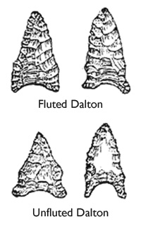 different types of Projectile points, from the palaeoindian period in the south eastern USA